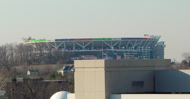 FedEx Field, photographed from the Largo Town Center Metro station